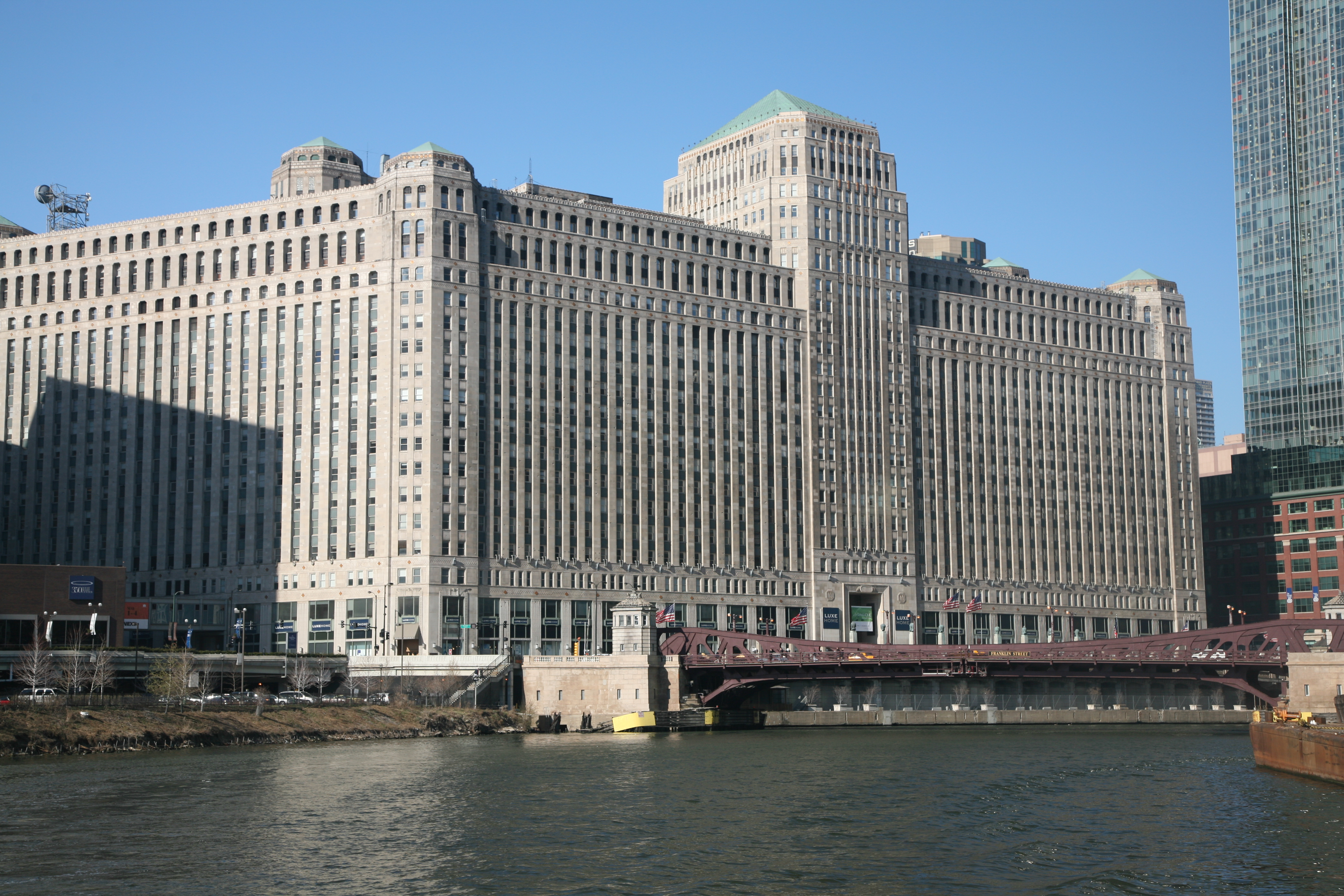 Merchandise Mart in Chicago